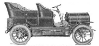 Image from a Grout Brothers Automobile Company advertisement Title Motor age, Volume 7 Publisher Class Journal Co., 1905 Original from the New York Public Library Digitized Jun 24, 2006 Google books